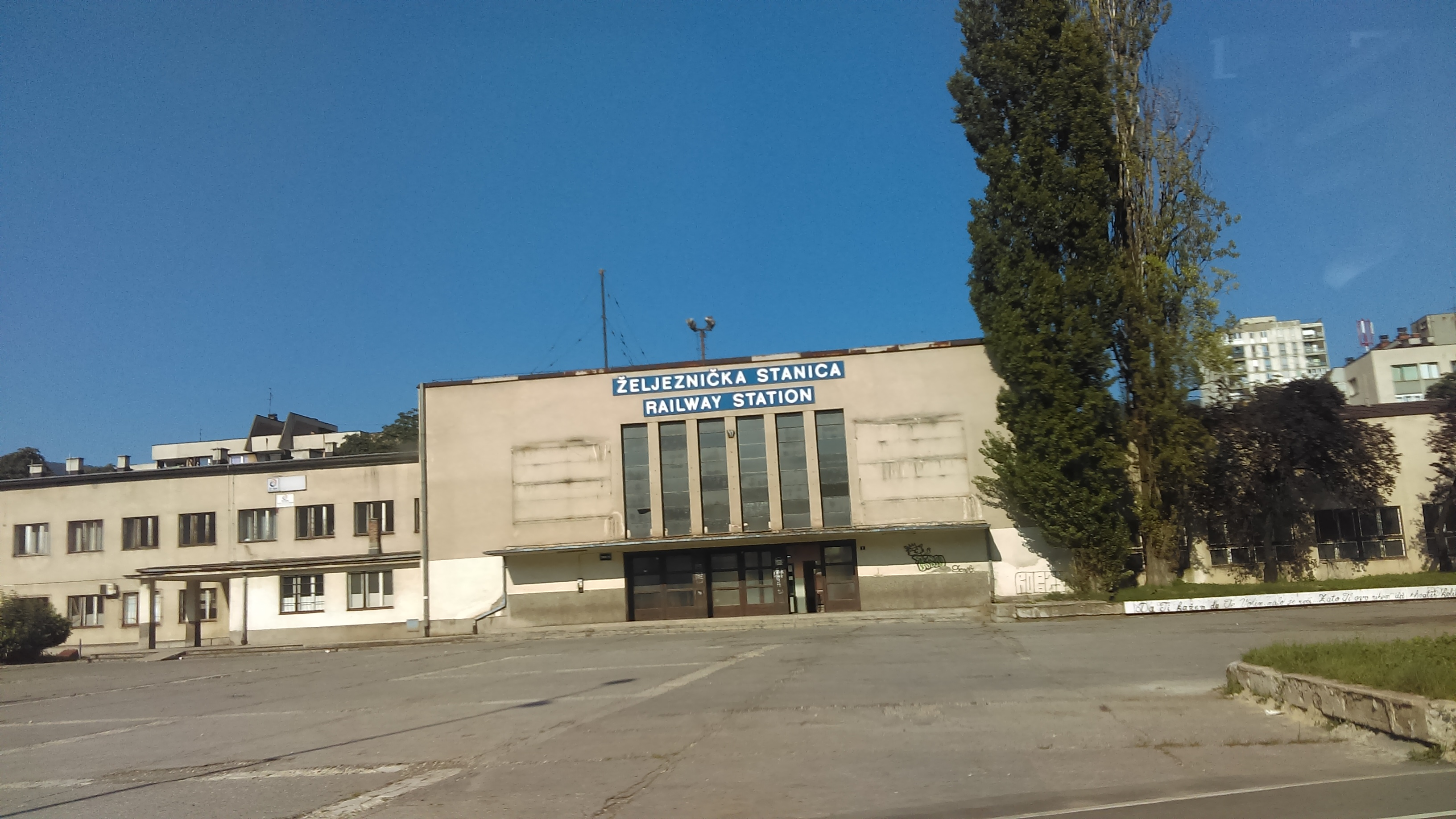 Zenica Railway Station, BiH